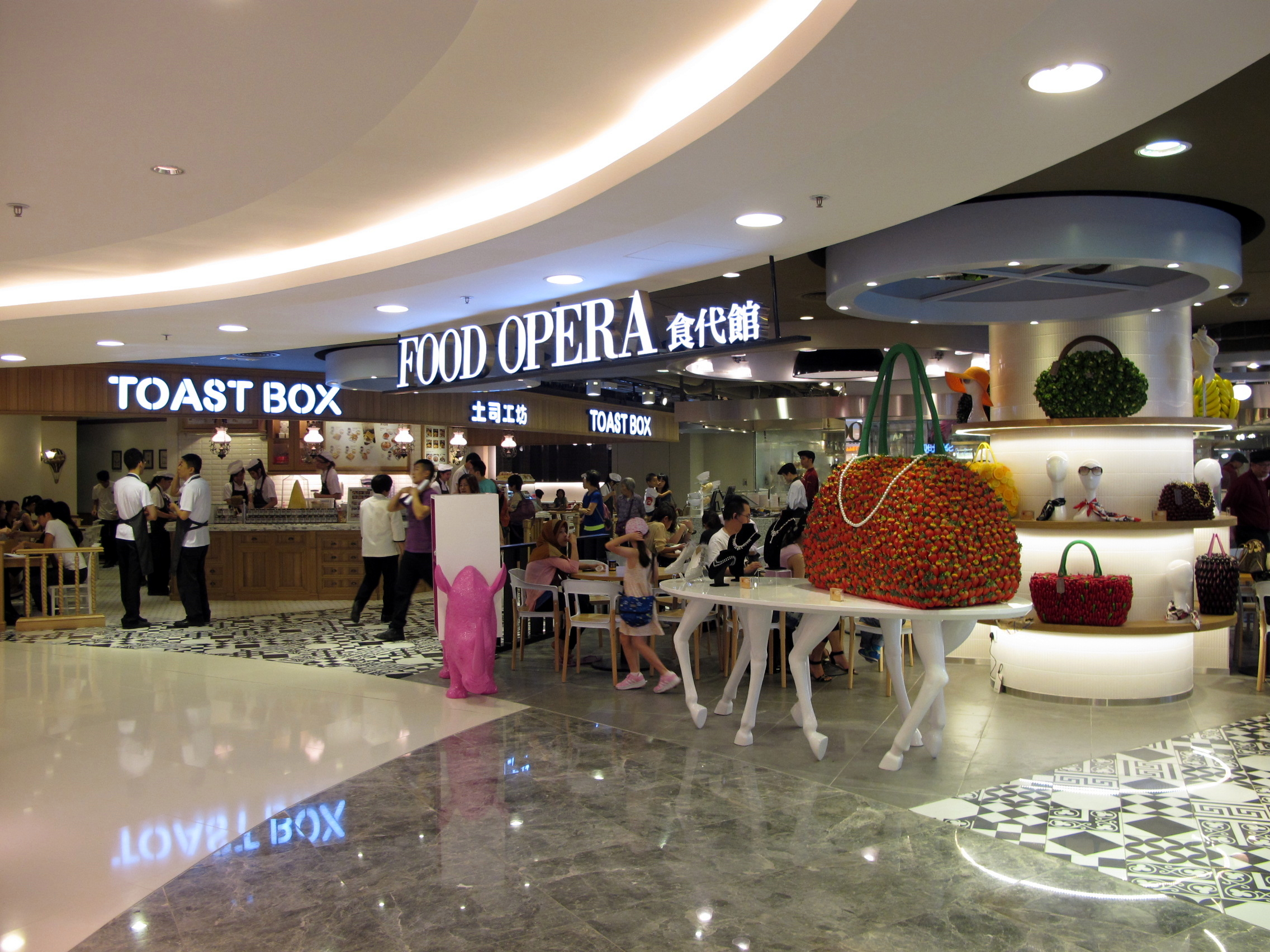 Grand Century Place Food Opera